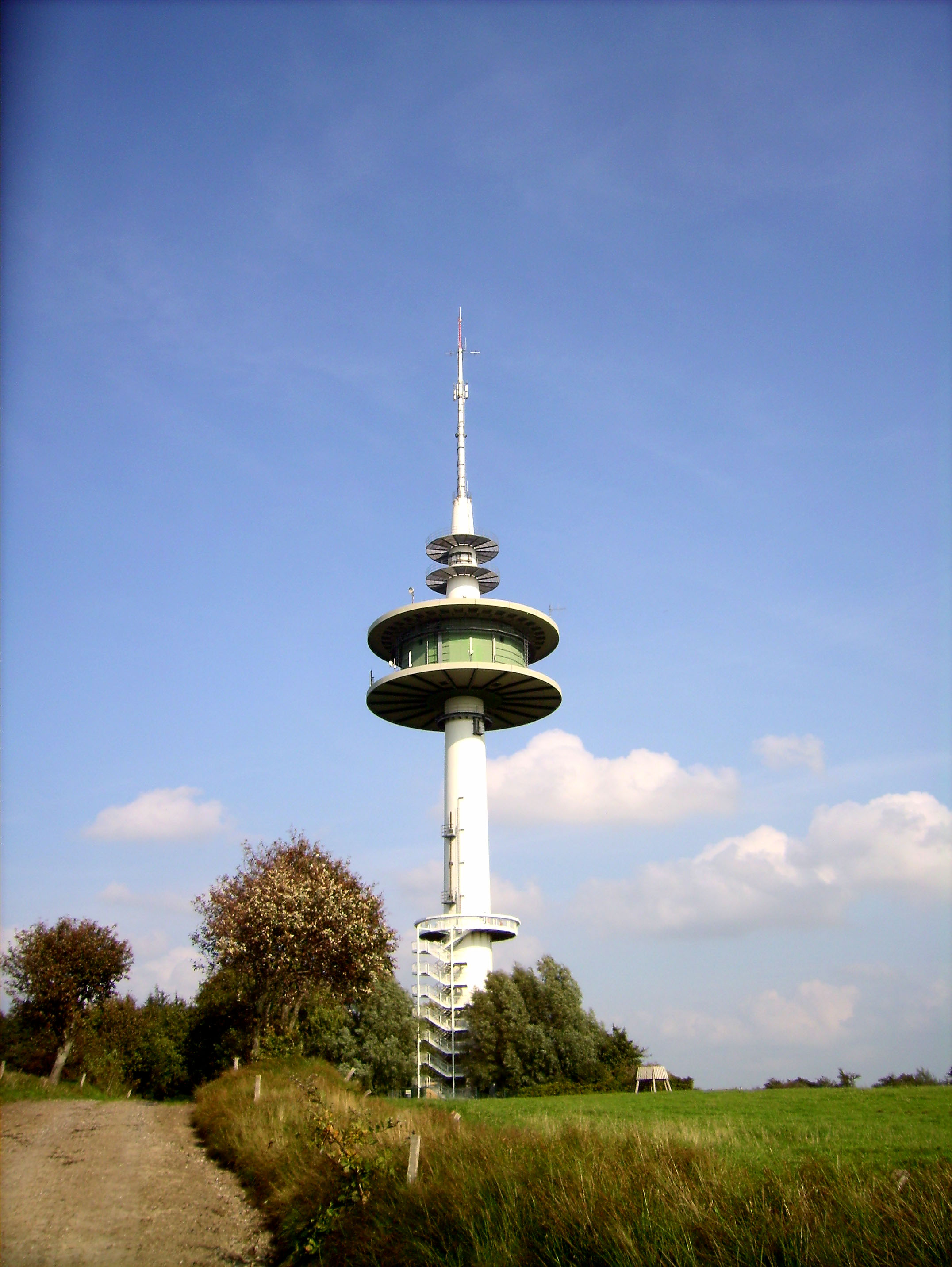 Telecommunication Tower with a sight-seeing platform upon the 'Stollberg' near Bredstedt, North Frisia, Germany